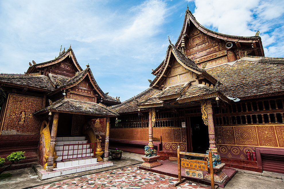 Man Chunman Buddhist Temple, Dai Ethnic Garden, Xishuangbanna Prefecture, China